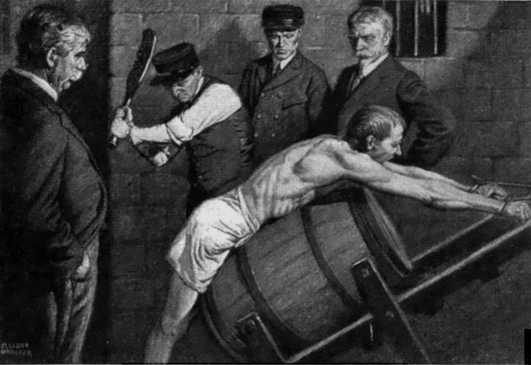 1912 illustration of an inmate in an American prison receiving "the paddle", a form of torture used for punishment. This was illegal at the time.